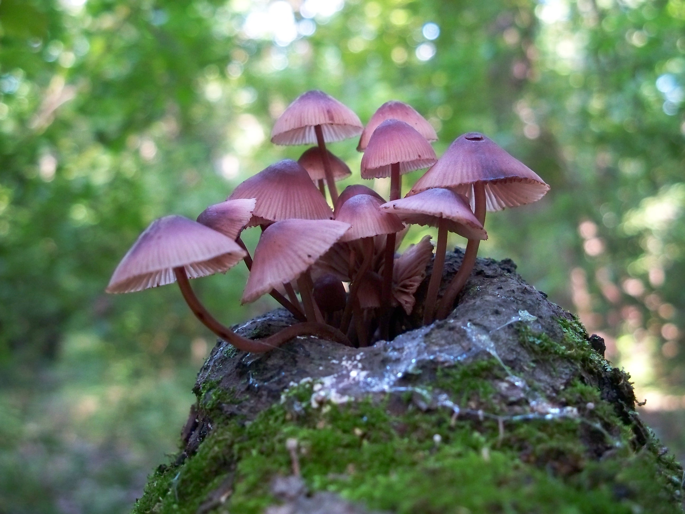 Fruiting bodies (mushrooms) of the fungus Mycena haematopus (Pers.) P. Kumm. Specimens photographed in Cliff Cave Park, Arnold, Missouri, USA.